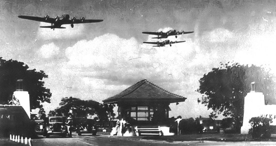 B-17Ds of the 5th Bombardment Group overfly the main gate at Hickam Field, Hawaii Territory during the summer of 1941. 21 B-17C/Ds had been flown out to Hawaii during May to reinforce the defenses of Hawaii. (USAAC Photograph)